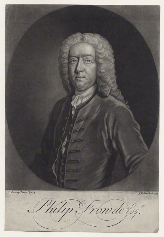 Portrait of Philip Frowde (died 1738), English poet and dramatist.